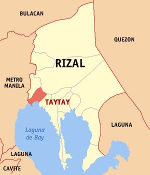 Locator map of Taytay in Rizal, Philippines.